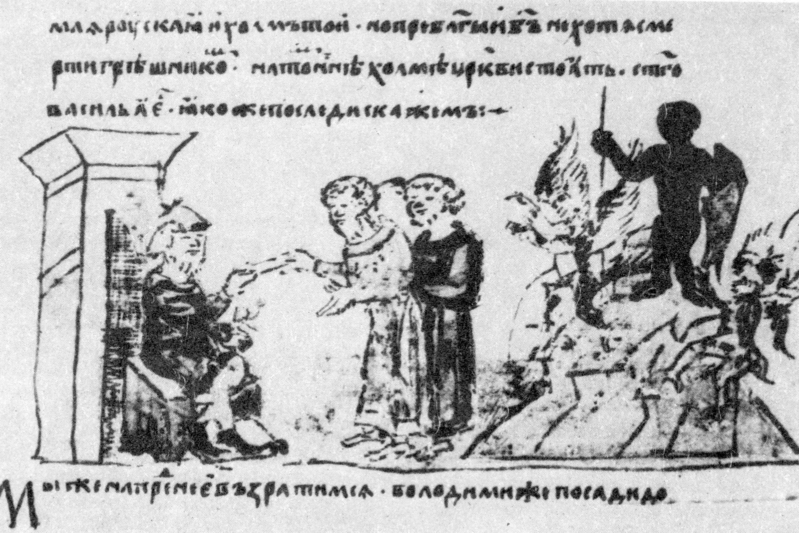 Perun